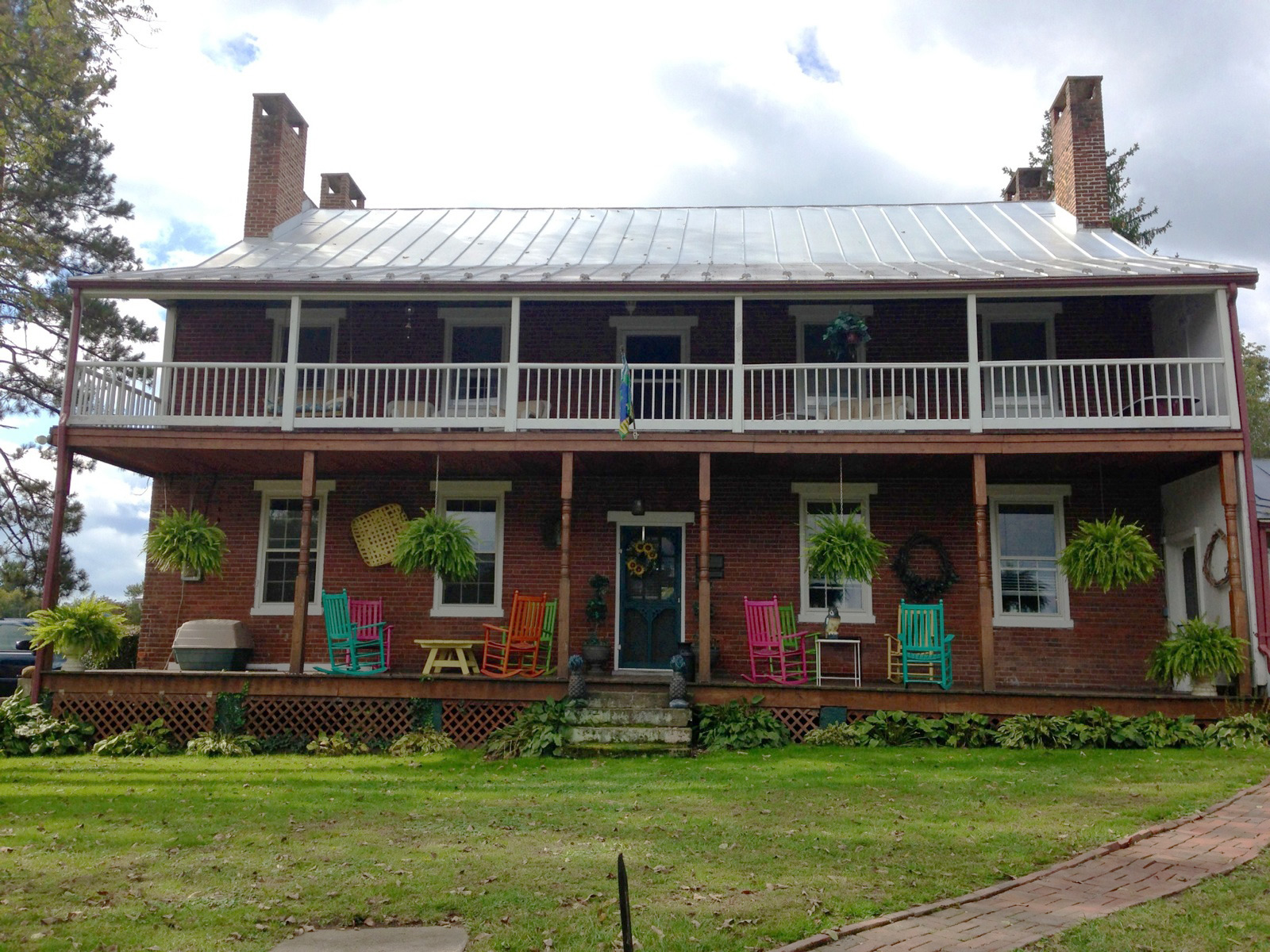 Valley View is a mid-19th century Greek Revival residence and associated farm overlooking the South Branch Potomac River north of Romney in the U.S. state of West Virginia. Valley View is located along Depot Valley Road. The South Branch Valley Railroad runs adjacent to the farm's property and is currently utilized by the Potomac Eagle Scenic Railroad. Valley View was listed on the National Register of Historic Places on December 12, 2012 for its locally significant Greek Revival architecture. Photographed by Hilary Mayhew in 2013, facing the home's rear elevation.